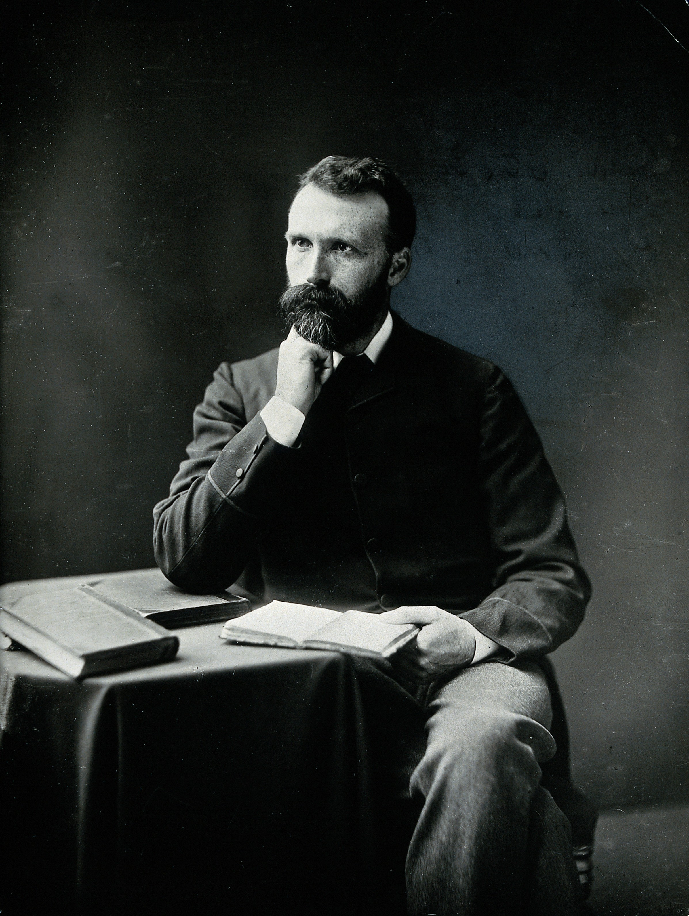 Sir William Macewen. Photograph. Iconographic Collections Keywords: portrait photographs